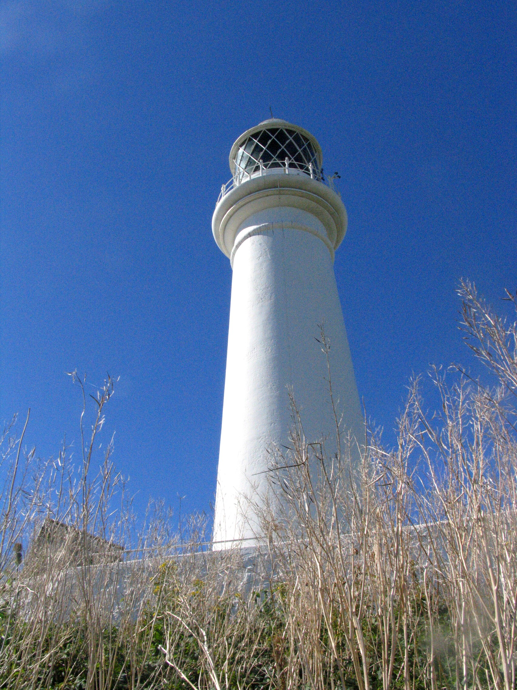 Flat Holm Lighthouse